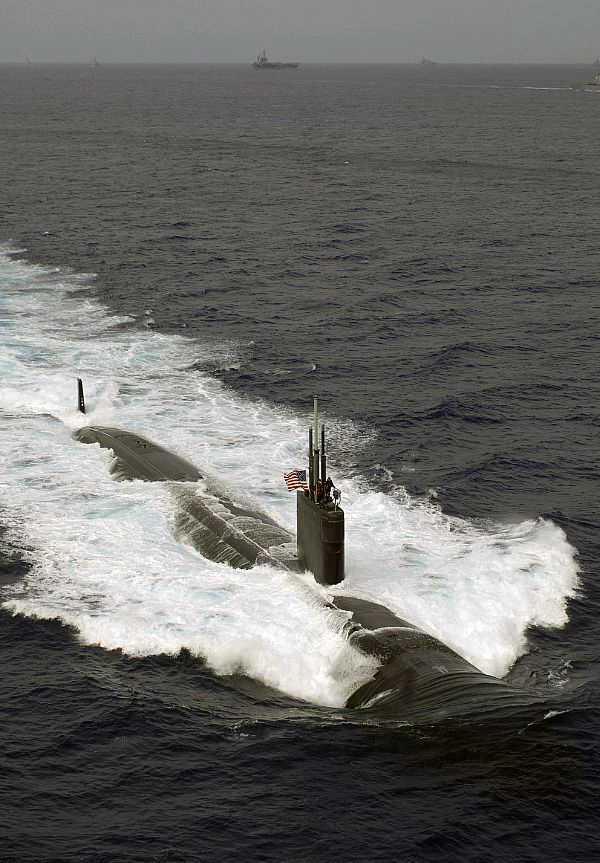 The Los Angeles-class attack submarine USS Asheville (SSN 758) steams out in front of the of the USS Kitty Hawk (CV 63) carrier strike group and ships of the Japanese Maritime Self-Defense Force (JMSDF) during the U.S. and JMSDF exercise ANNUALEX. The exercise is designed to improve both forces' capabilities in the defense of Japan. Approximately 8,500 U.S. Sailors are taking part aboard 13 ships, submarines and various shore-based aircraft. About 90 JMSDF ships and 130 aircraft are also participating. The aircraft, which operate from Naval Air Facility Atsugi, Japan, are deployed aboard the Kitty Hawk. Kitty Hawk and most of the U.S.-participating ships operate from Fleet Activity Yokosuka, Japan; the remainders are based in the United States. Pacific Ocean (Nov. 14, 2006)